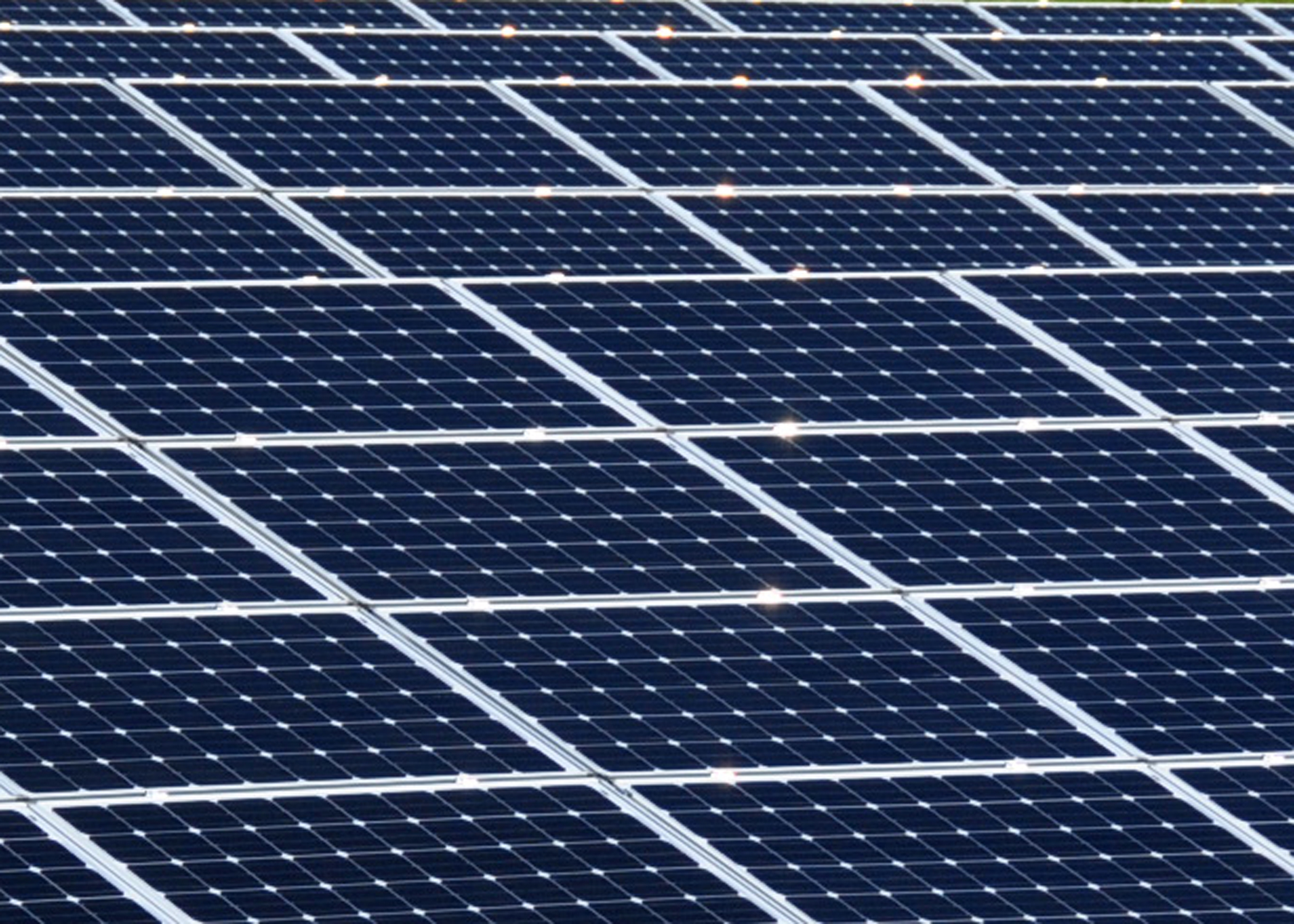 Guantanamo Bay, Cuba (Oct. 22, 2011) A view of solar panels being installed at Naval Station Guantanamo Bay, Cuba. The solar farm is being installed to provide electricity for the ongoing expansion of Denich Gym at the naval station's Cooper Field sports complex. (U.S. Navy photo by Chief Mass Communication Specialist Bill Mesta/Released)